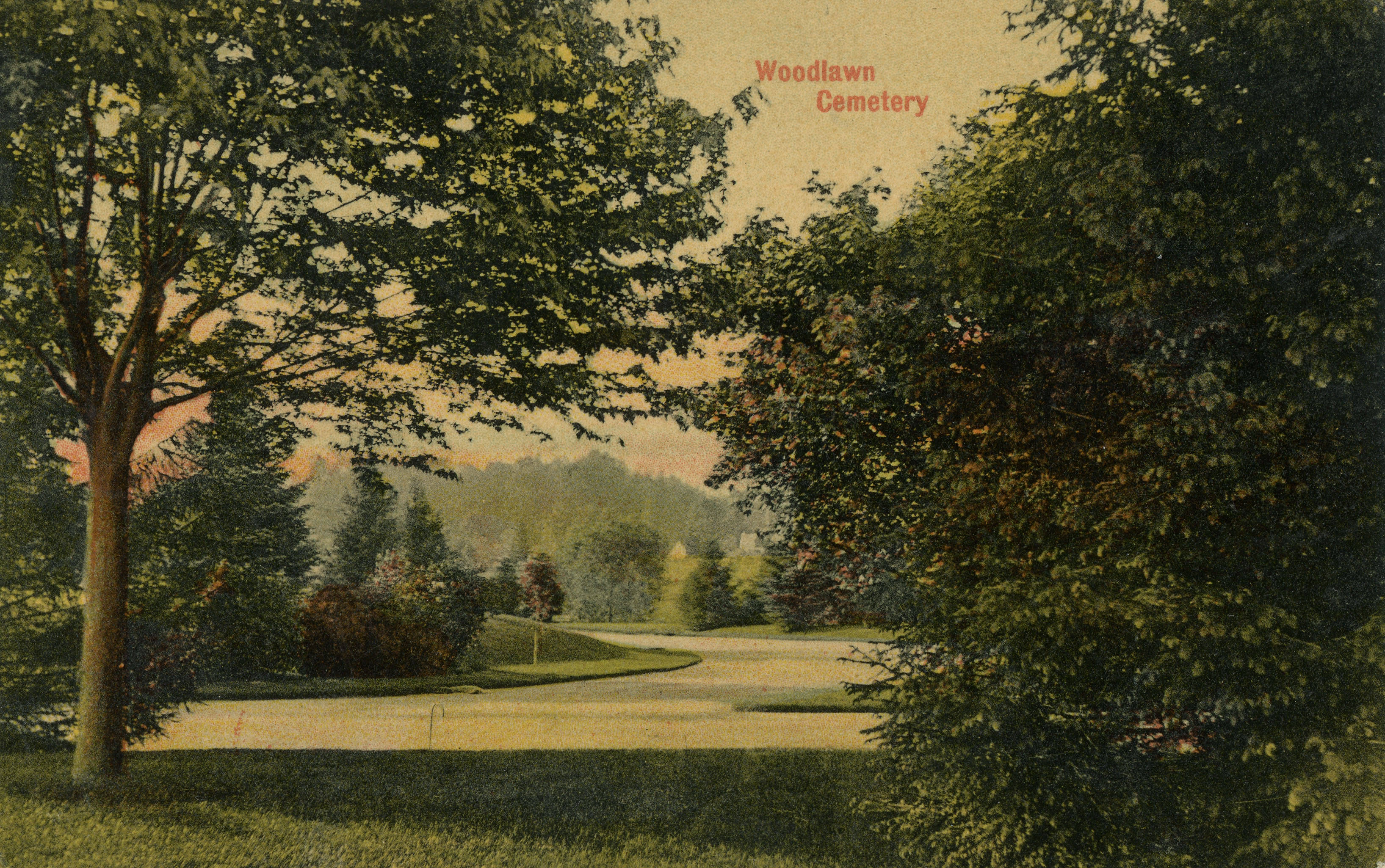 A postcard from the Ken Levin Toledo Postcard Collection, donated by Toledo resident, Ken Levin. The collection contains picture postcards about the Toledo area. Mr. Levin’s collection was published by the Toledo Blade in a book entitled “You Will Do Better in Toledo: From Frogtown to Glass City”, edited by Sandy and John R. Husman.